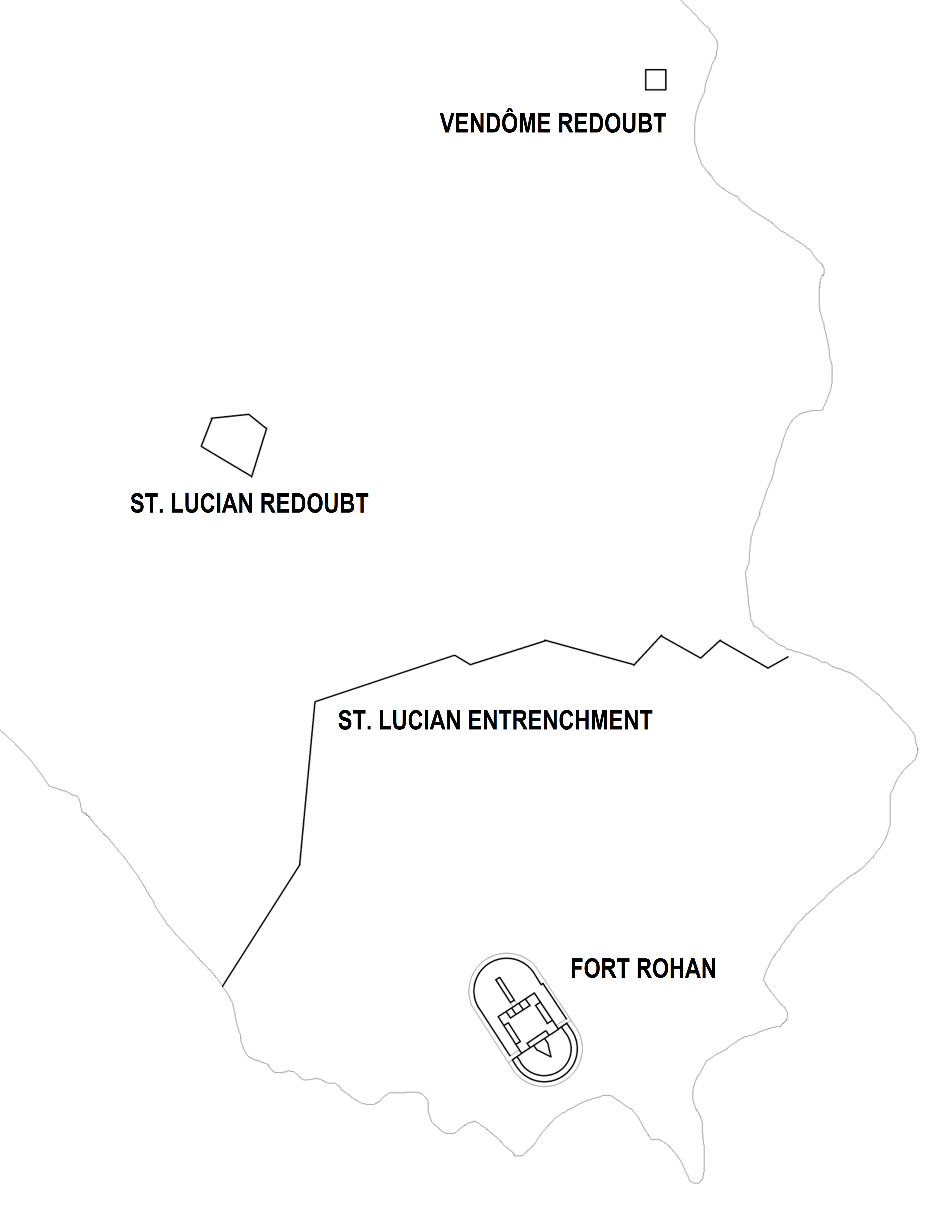 Map of St. Lucian Redoubt, St. Lucian Entrenchment, Fort Rohan and Vendôme Redoubt in Marsaxlokk Bay, Malta, during the French blockade in 1799. Today, St. Lucian Entrenchment & Redoubt have been demolished, Fort Rohan has been rebuilt as Fot San Lucian, while Vendôme Redoubt remains intact.